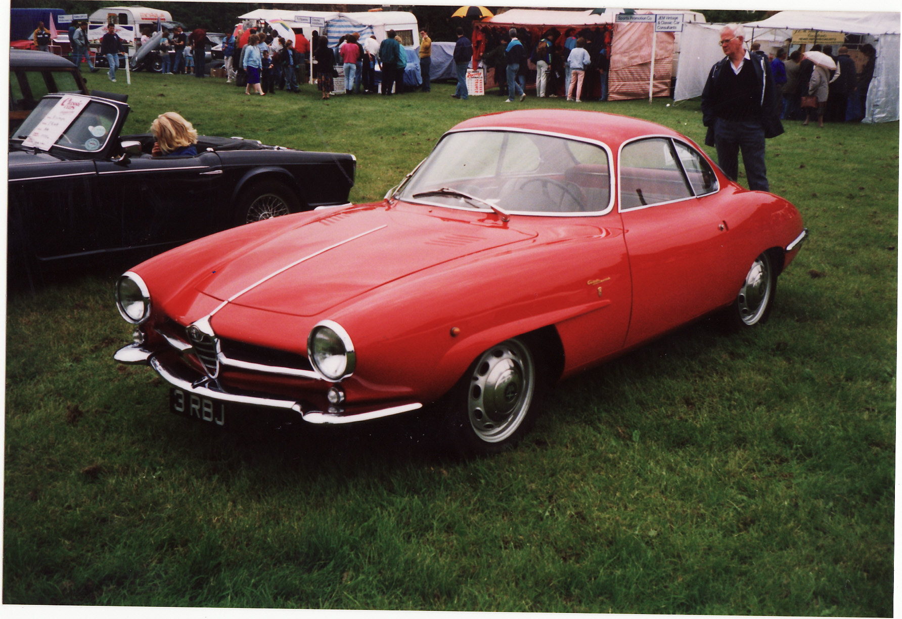 Spotted at a Rally at the National Motor Museum, Beaulieu in the 1990's.